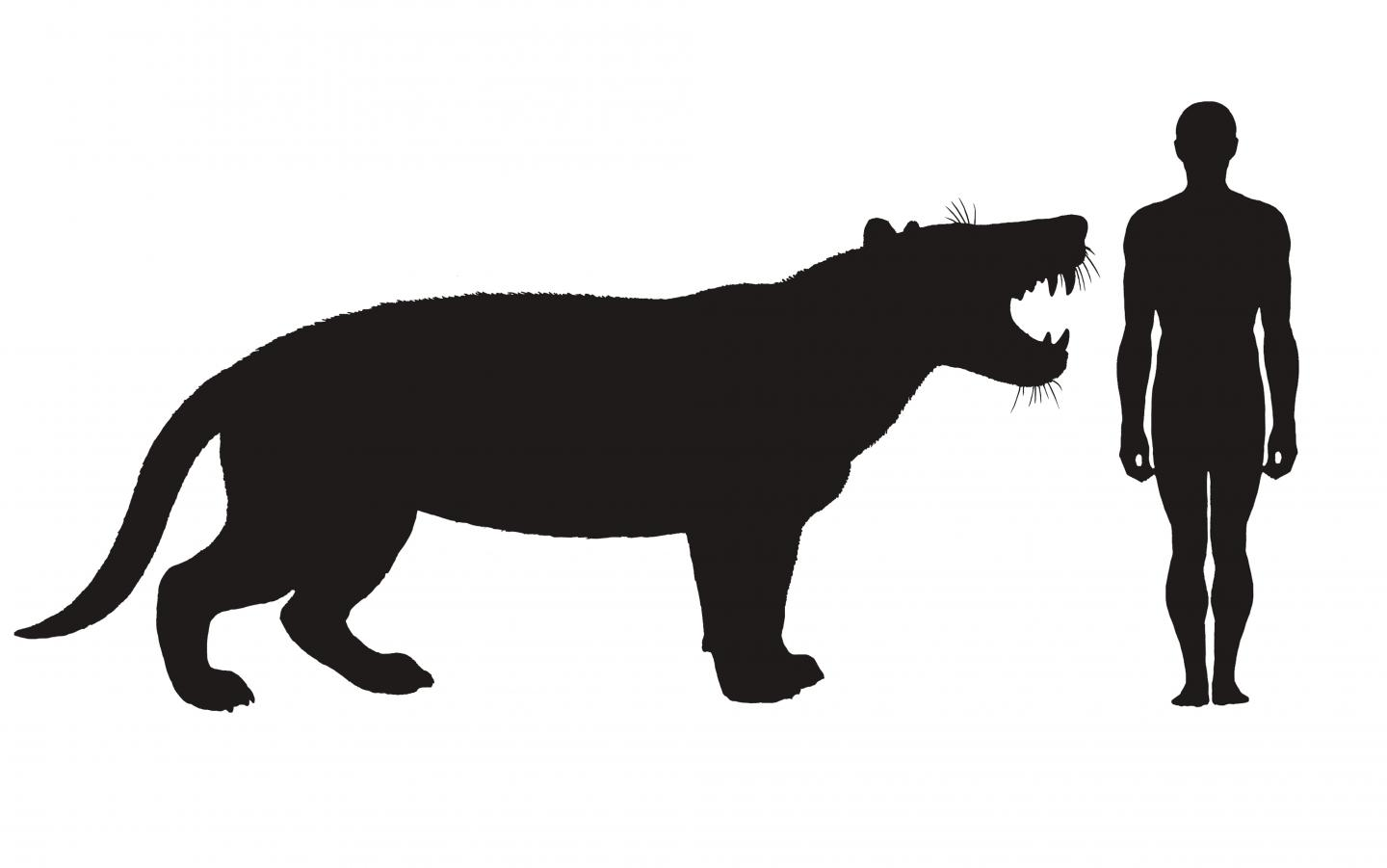 Simbakubwa kutokaafrika, an extinct hyaenodont, with a skull as large as that of a rhinoceros and enormous piercing canine teeth. by Mauricio Anton